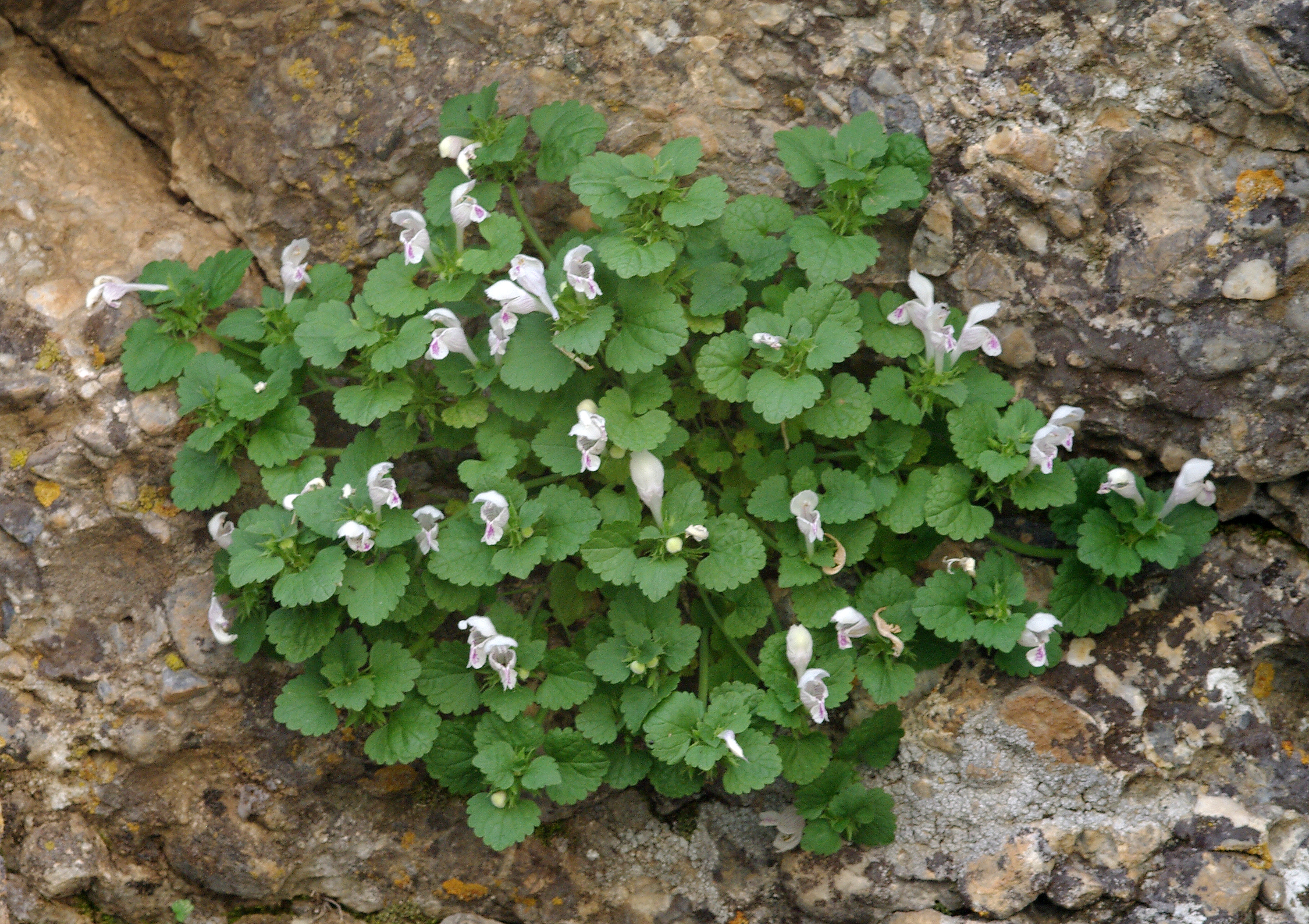 Lamium sp. (probably Lamium garganicum subsp. striatum var. microphyllum)